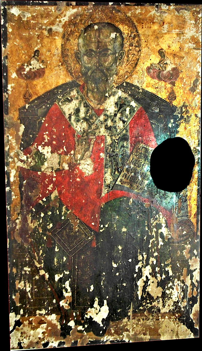 Fresco from the Sts. Cosmas, Pantaleon, and Damian Church, Vogatsiko